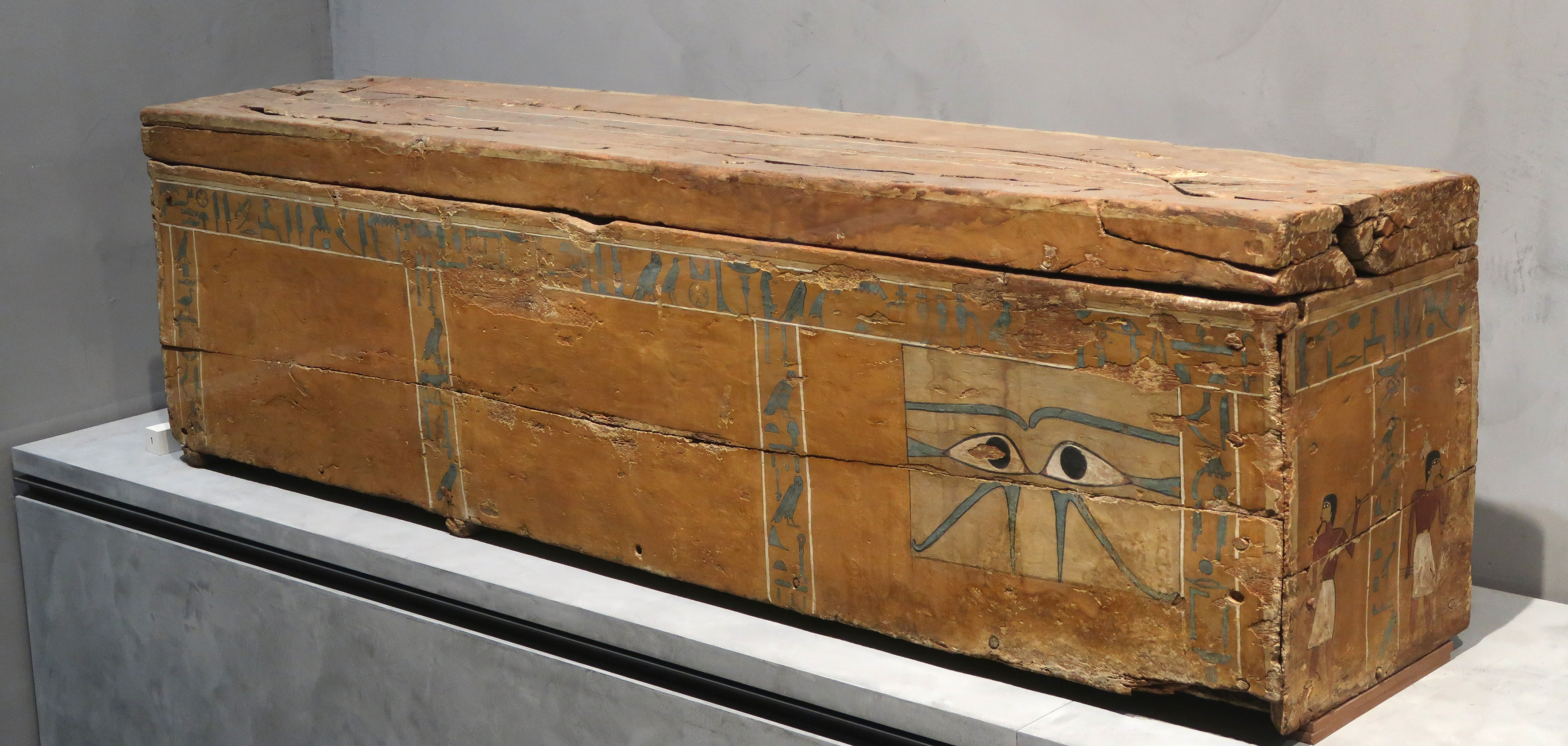 Dedina's coffin. Late Old Kingdom - First intermediate period. Polychrome tamarisk wood. Length 199; Width 41; Depth 53.8 cm. Lyon Museum of Fine Arts. Inv. 1972-111